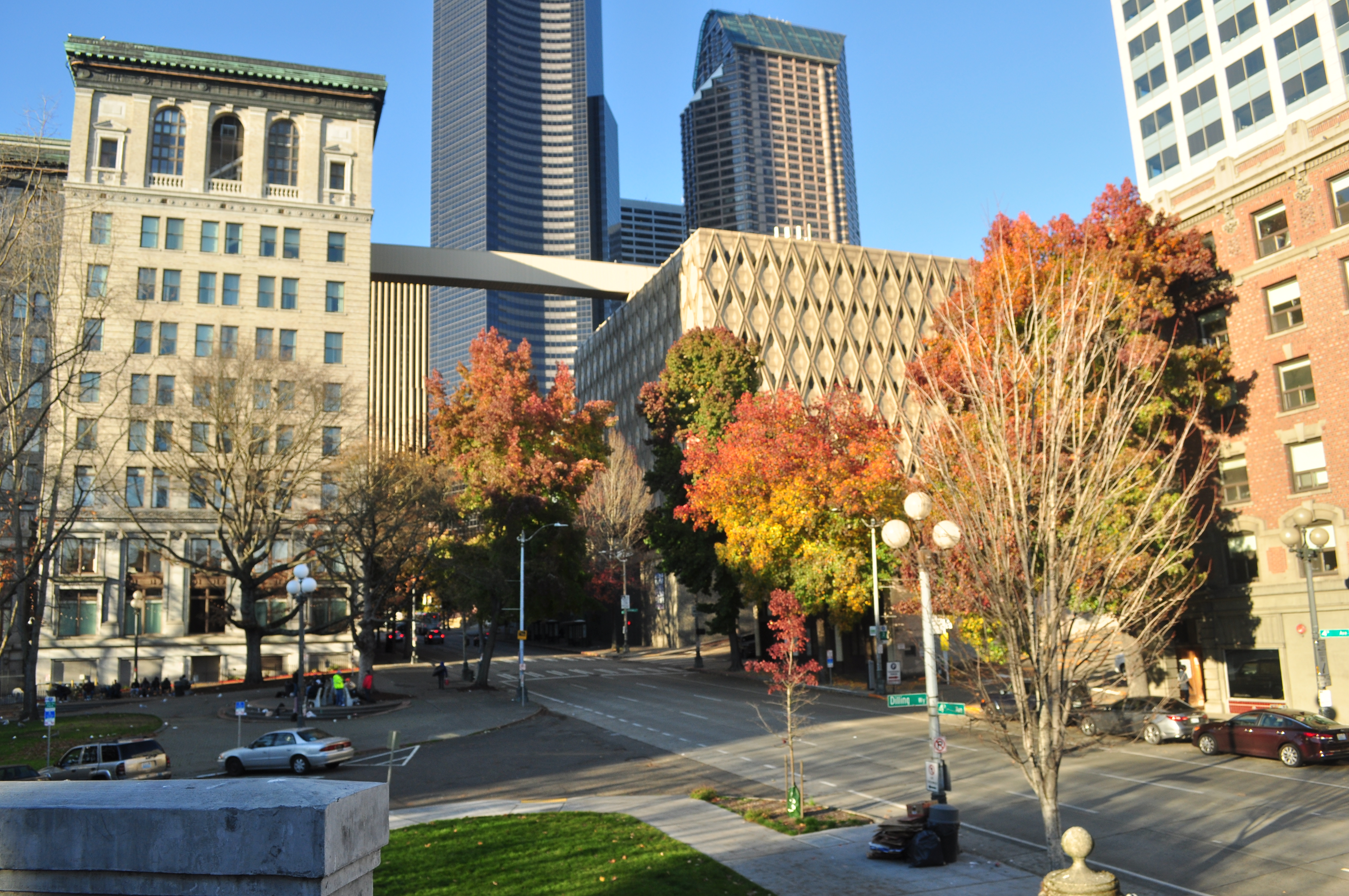 City Hall Park, King County Courthouse, and King County Administration Building, Seattle, Washington, U.S.